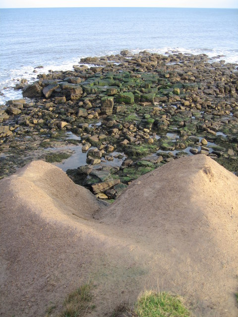 Sharpness Point Showing the land erosion.